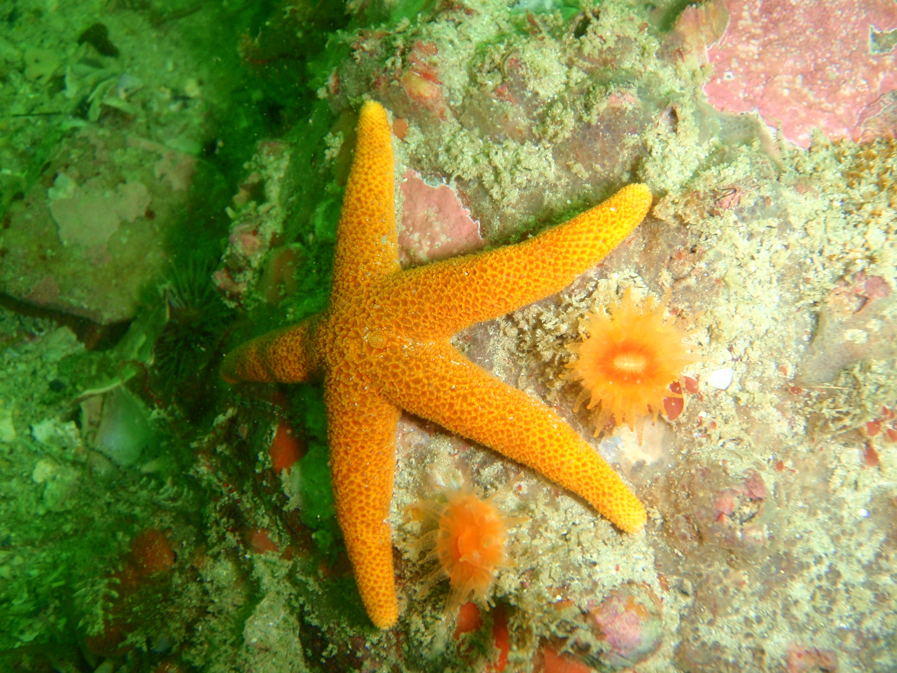 Reticulated starfish at Pinnacle, south of Gordon's Bay on the east side of False bay